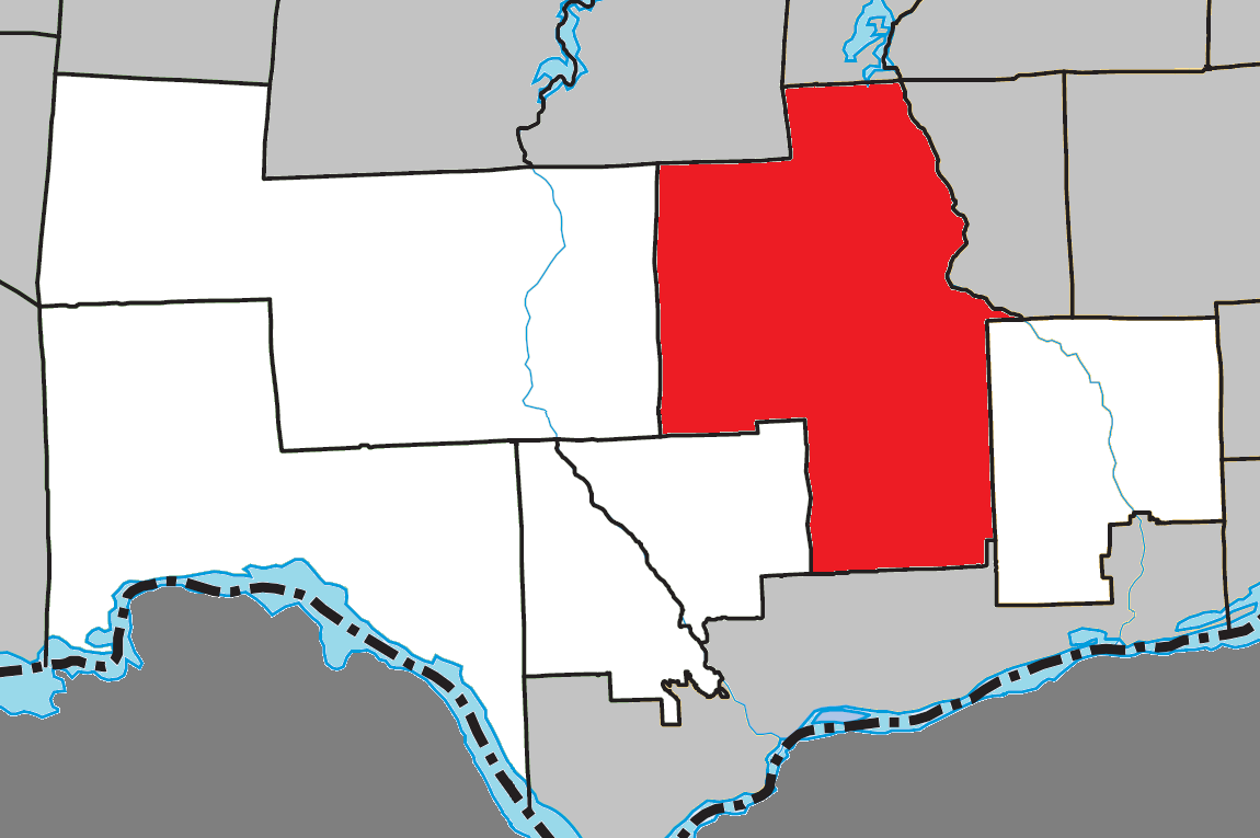 Location of Val-des-Monts, Quebec within Les Collines-de-l'Outaouais Regional County Municipality.